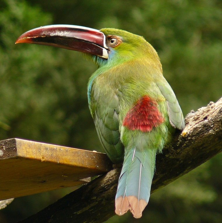 Crimson-rumped Toucanet - Dapa, Colombia